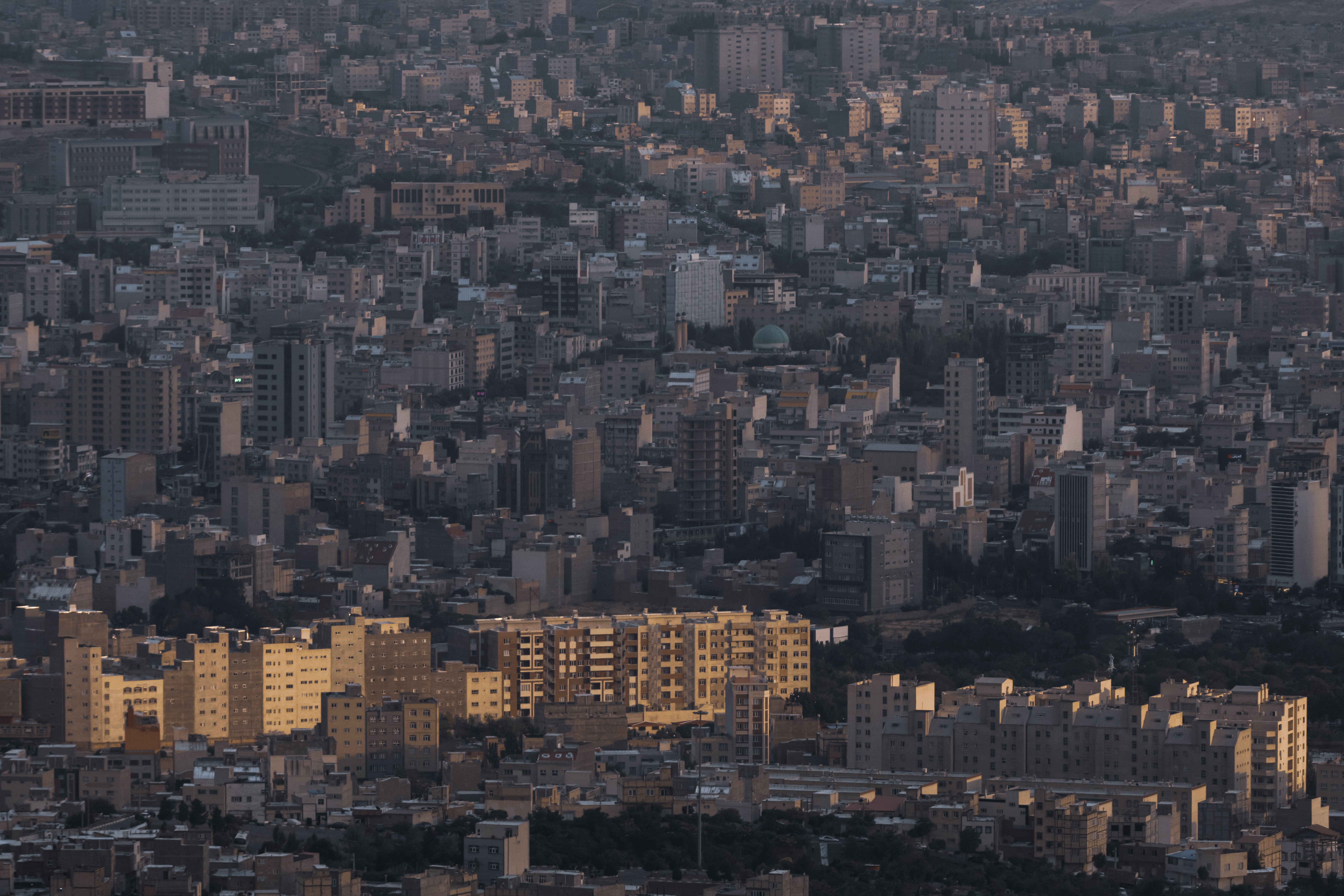 Tabriz is the most populous city in northwestern Iran, one of the historical capitals of Iran and the present capital of East Azerbaijan Province.